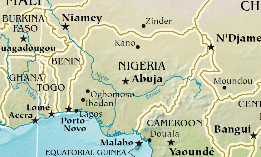 Location of Ogbomosho, in Western Nigeria